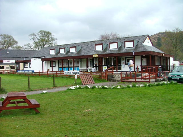 Strontian Village Shop The shop also houses a Tearoom and Bistro.